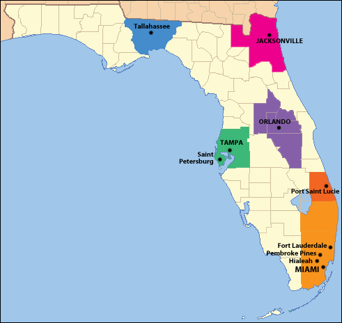 New map as per 2010 US Census showing cities with a population greater than 150,000, and their respective metro areas.